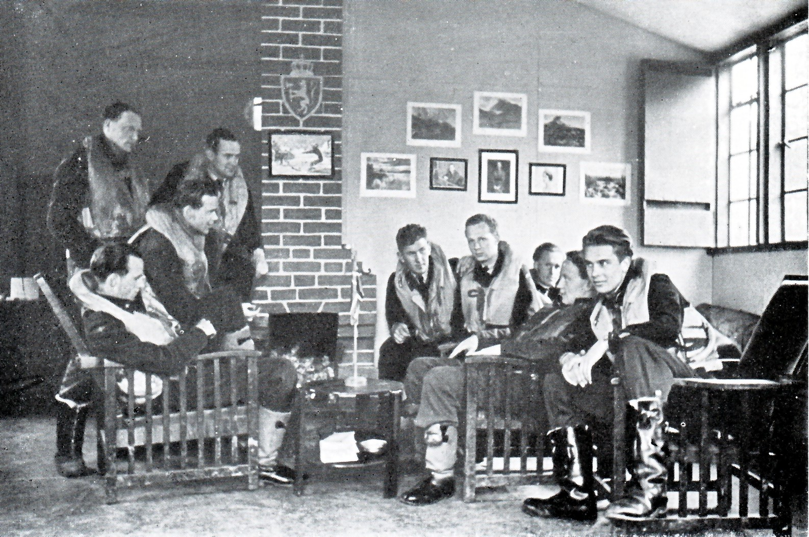 Pilots from 332 (Norwegian) Squadron at Catterick during World War II (April 1942). Marius Eriksen at far right.